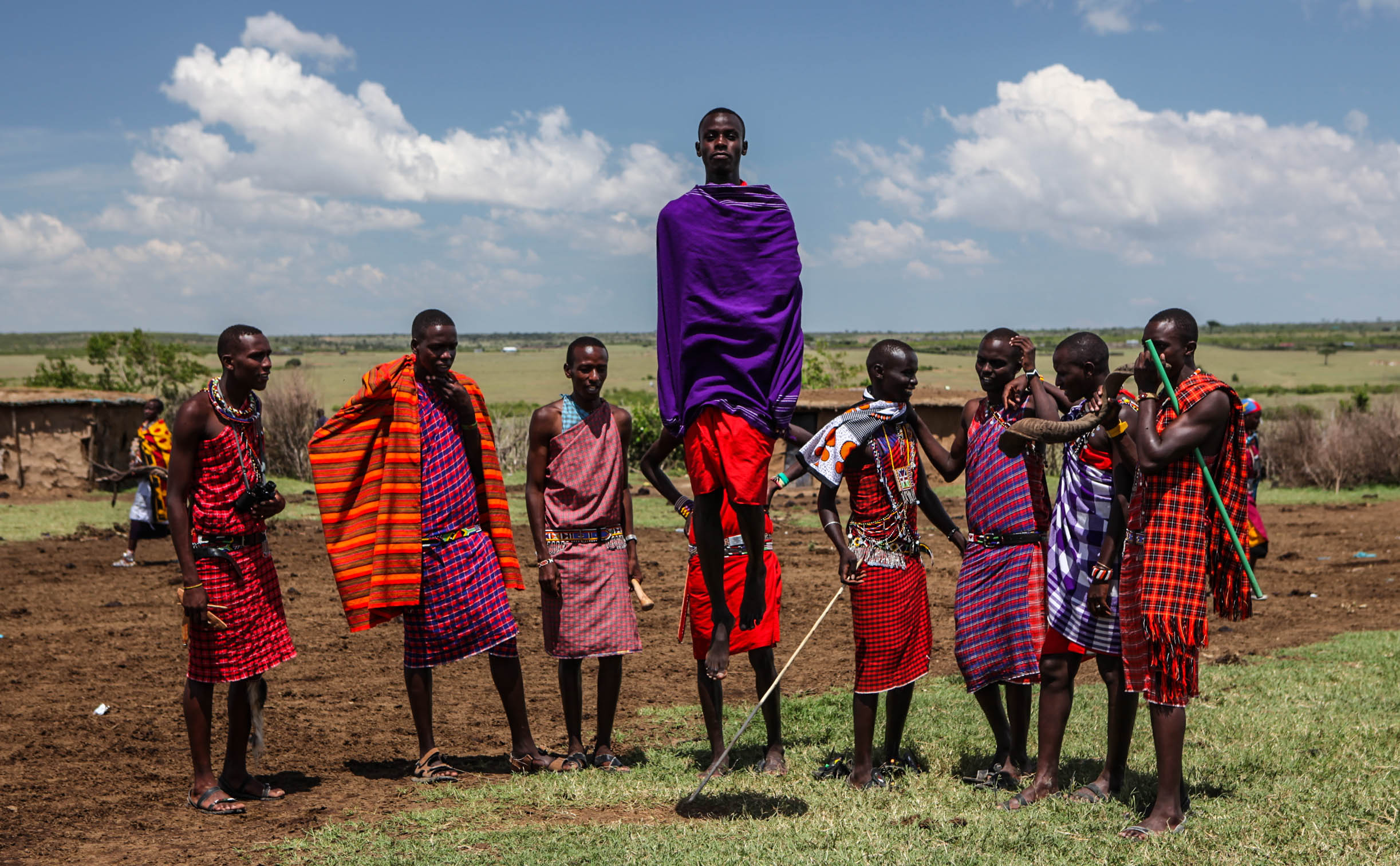 Maasai dance, Maasai Mara